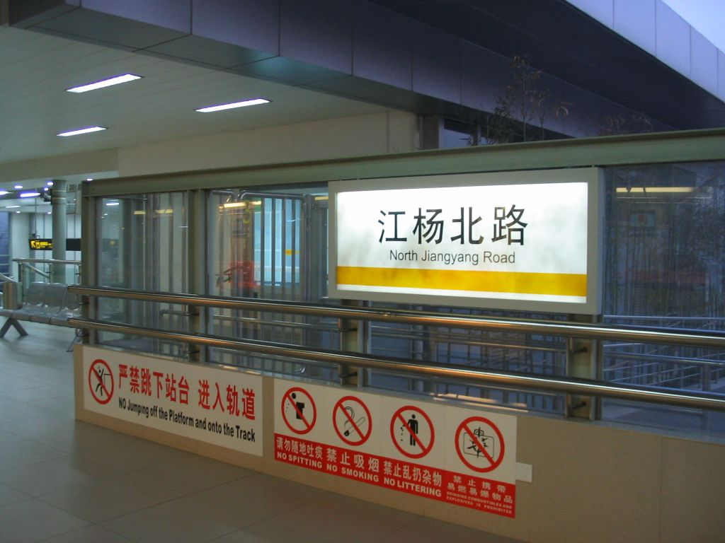 江楊北路站-3號線月台 Line 3 Platform of North Jiangyang Road Station